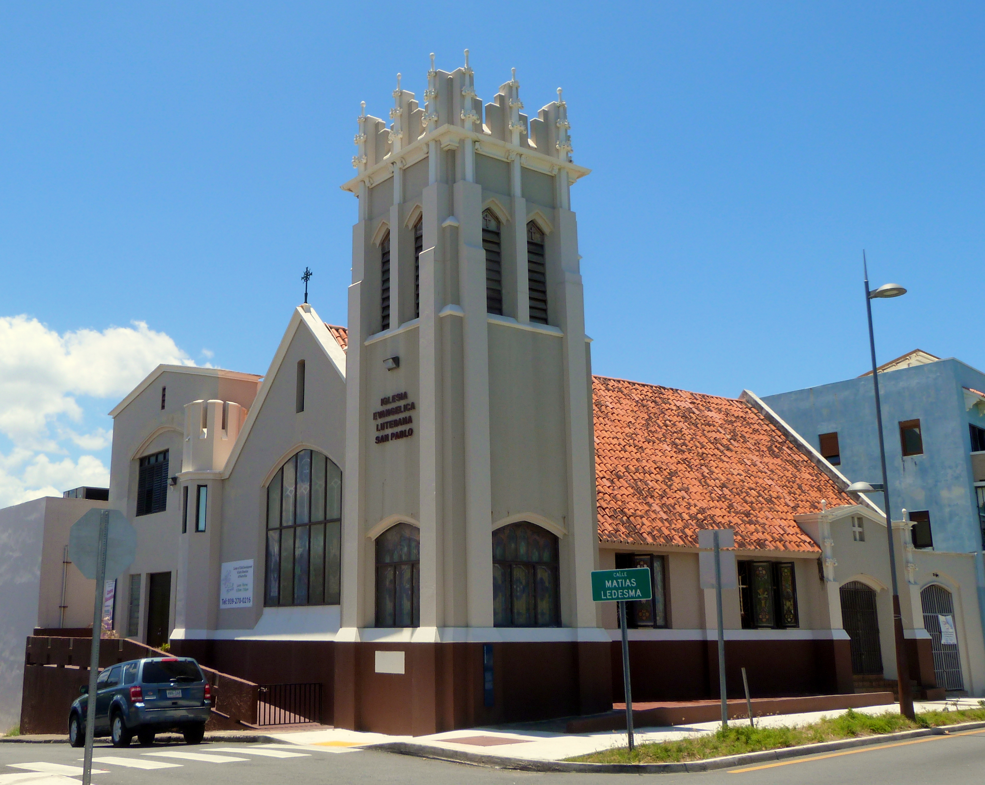 The Iglesia Evangelica Luterana San Pablo (Saint Paul Evangelical Lutheran Church), at the corner of Avenida Luis Muñoz Rivera and Calle Matías Ledesma in Old San Juan, Puerto Rico.